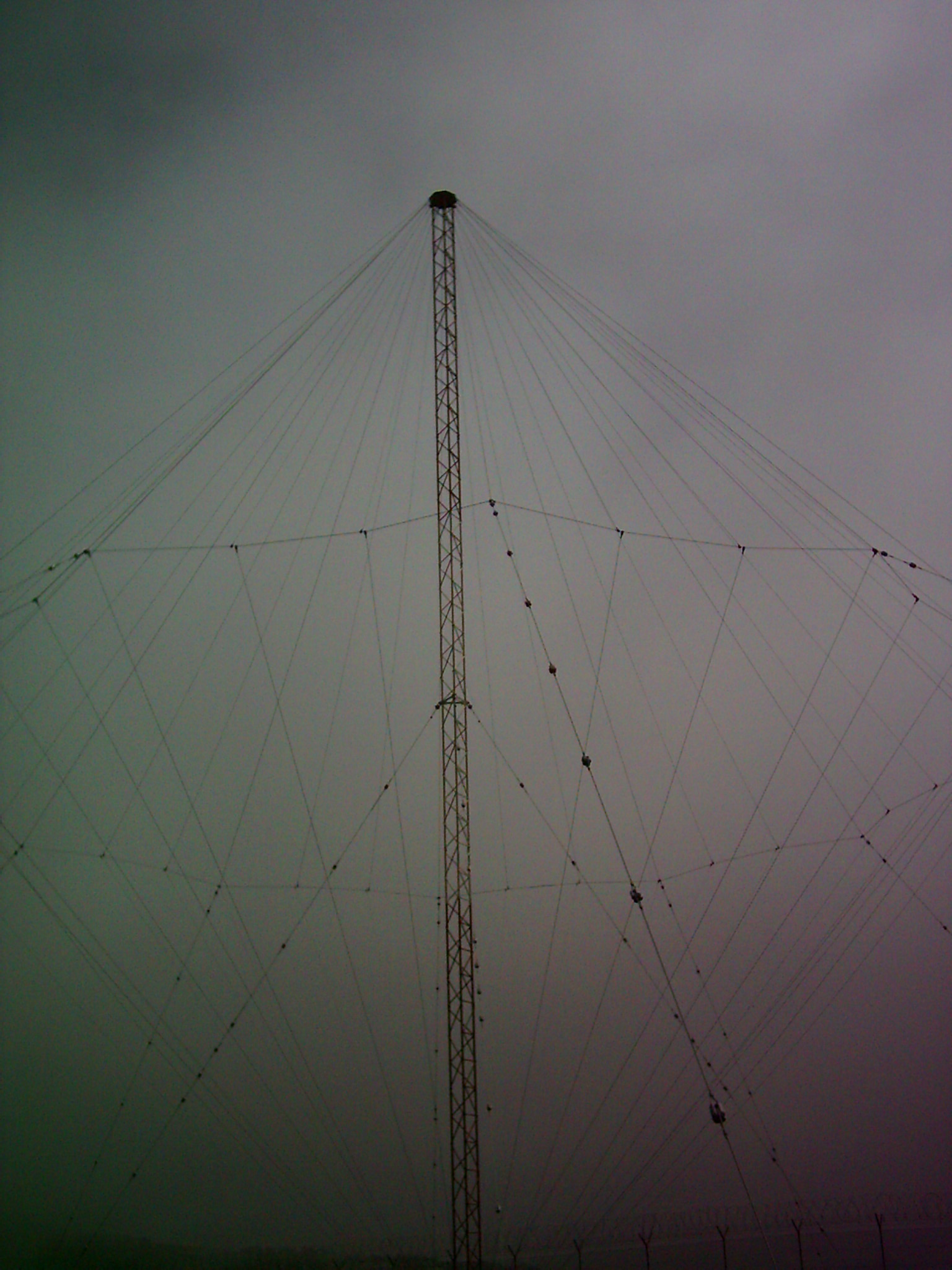 Antenna 3 (through the wire) in former Echelon intelligence gathering station at Silvermine, Cape Peninsula